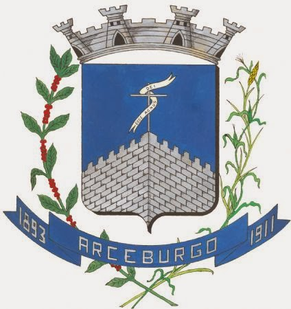 Coat of arms of the city of Arceburgo, Minas Gerais , Brazil.